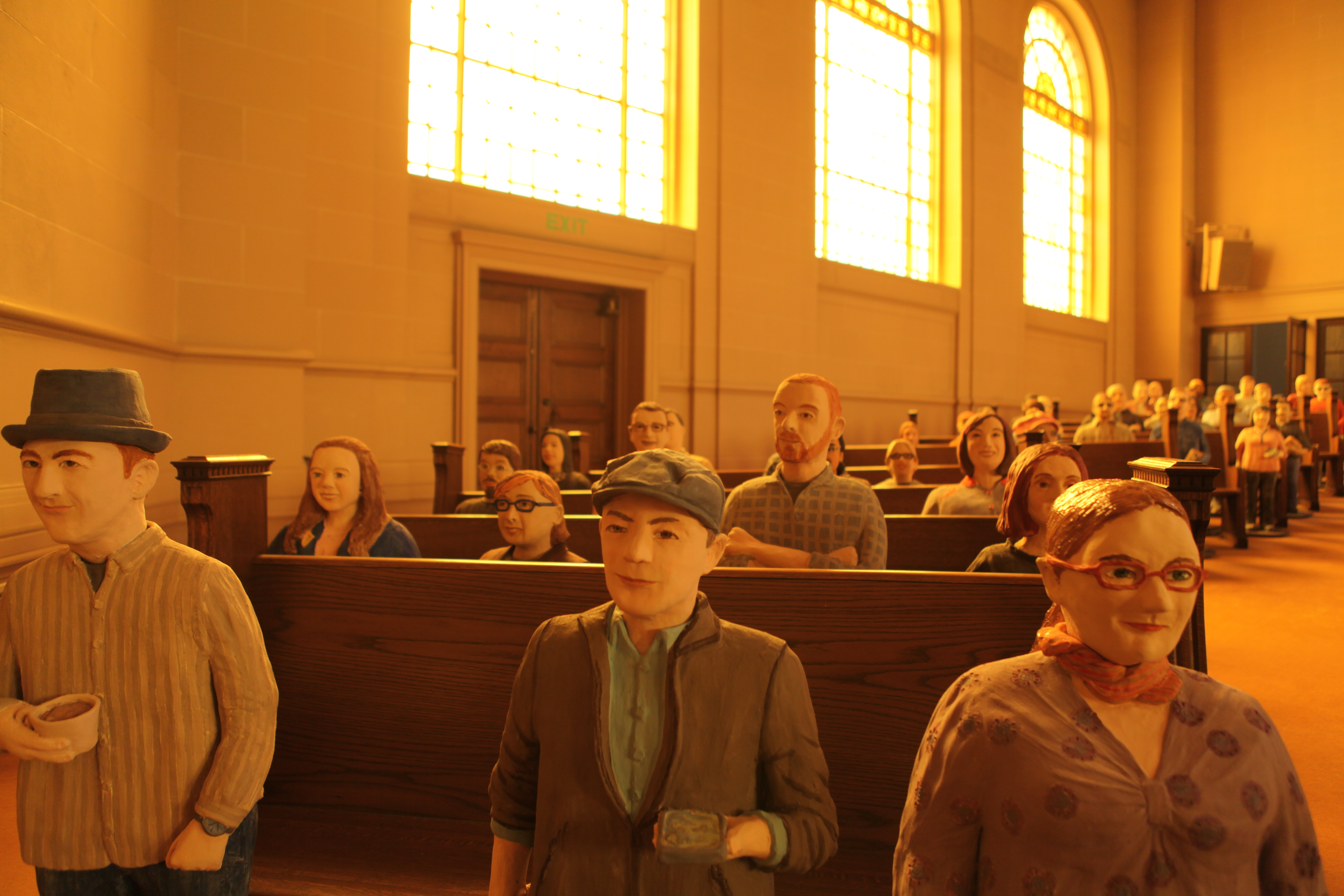 IMG 5067 Ceramic Archivists by sculptor Nuala Creed